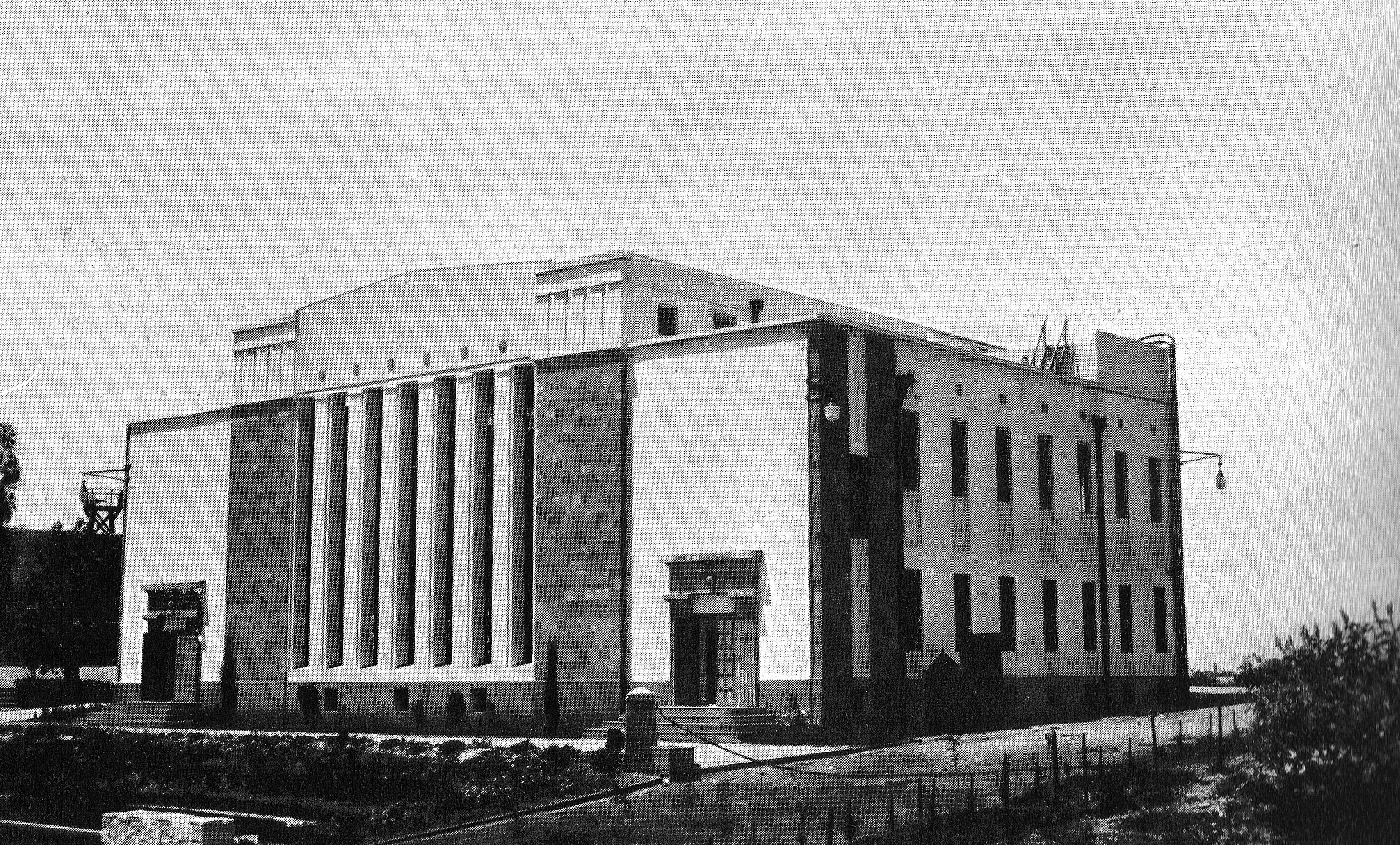 Pinhas Rutenberg's Palestine Electric Co Ltd